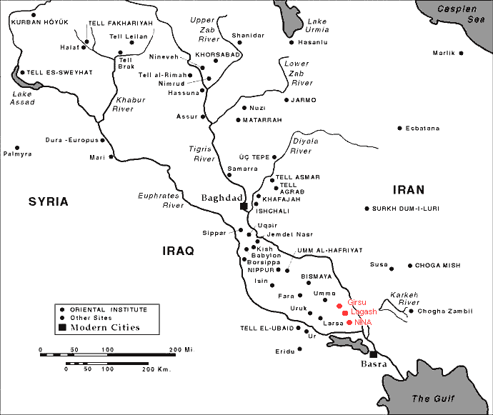 the sumerian State of Lagash